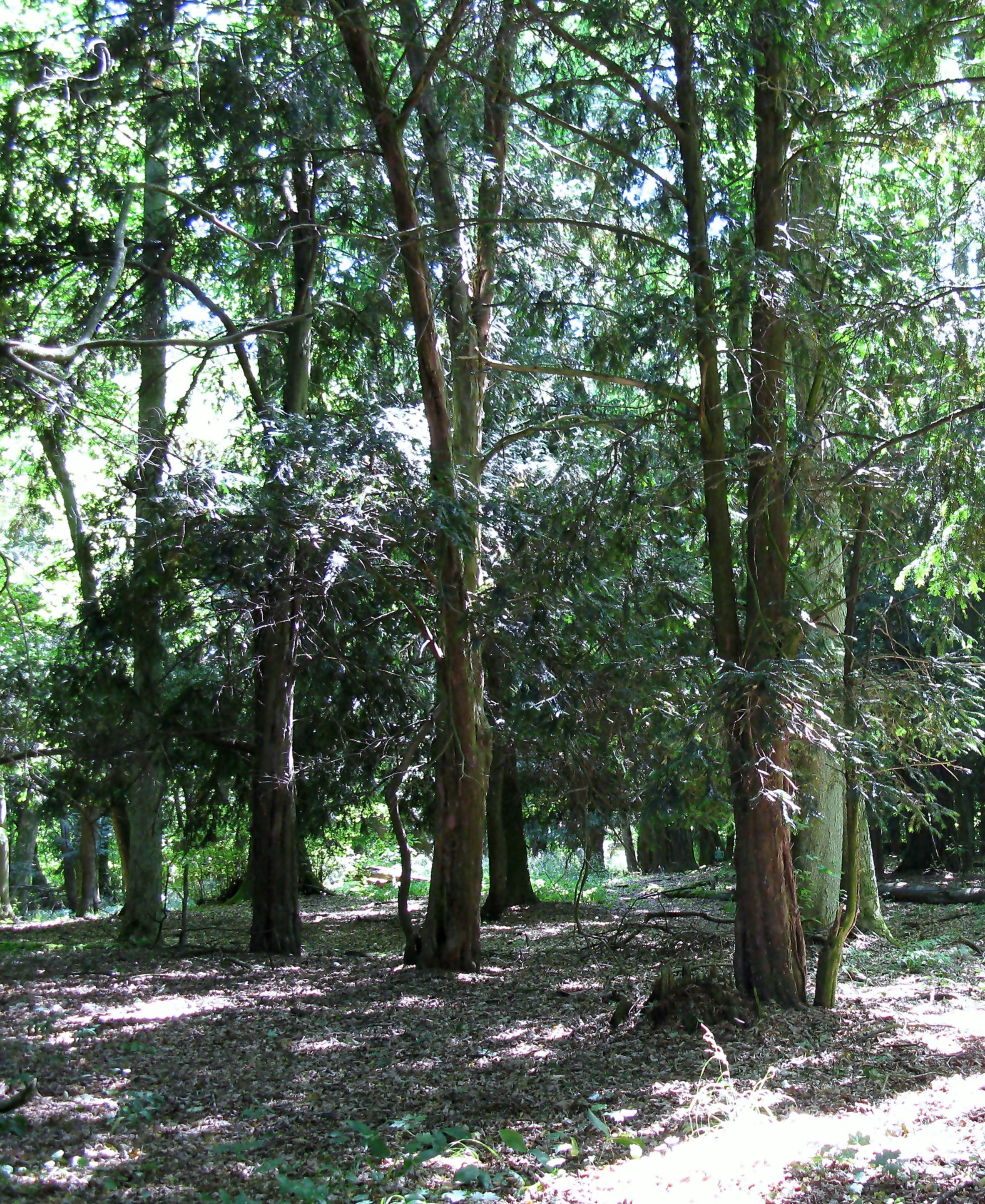 Taxus baccata in Cisy Staropolskie nature rerserve in Poland